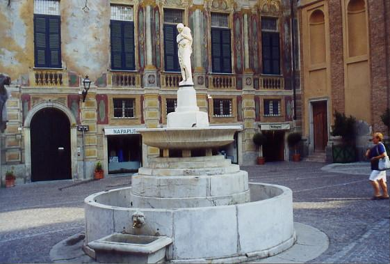 The fountain in Delle Piane square, Novi Ligure.